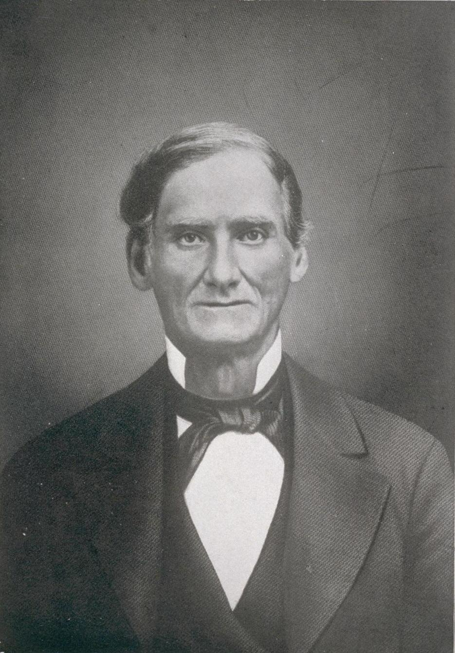 Juan Bandini (1800-1859), early settler of San Diego, California and recipient of the Rancho Jurupa land grant.